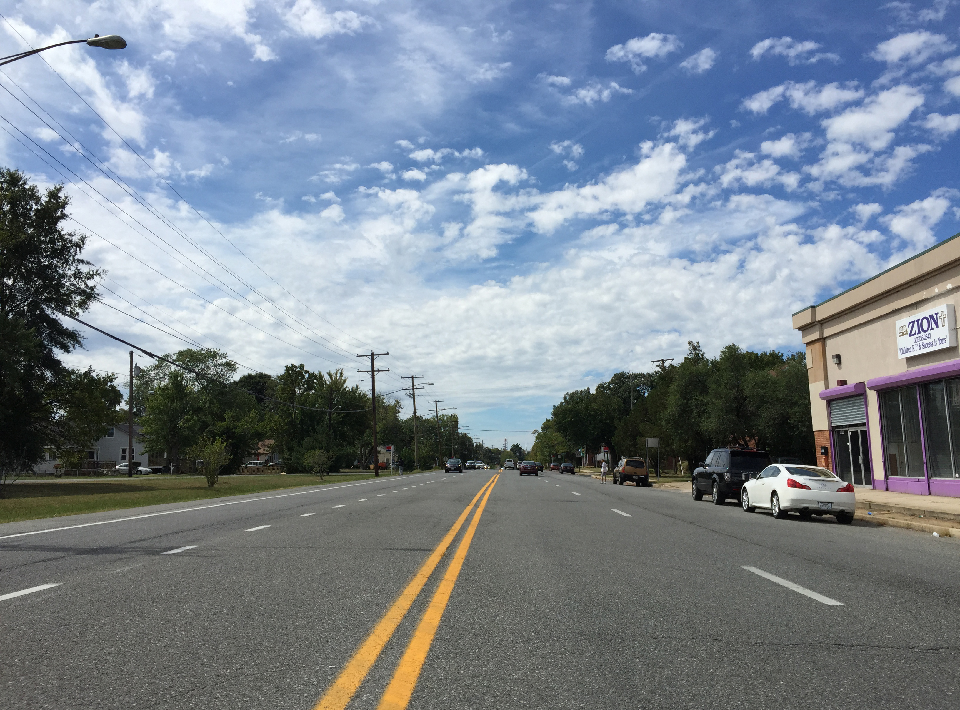 View east along Maryland State Route 972 (Old Silver Hill Road) between Parkland Drive and Parkland Court in District Heights, Prince Georges County, Maryland